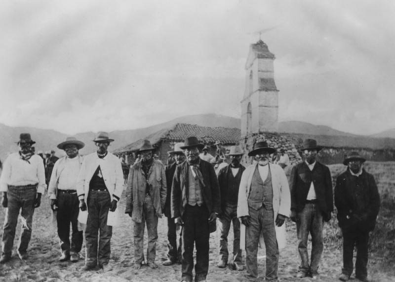 Luiseño Native Americans at Pala, California